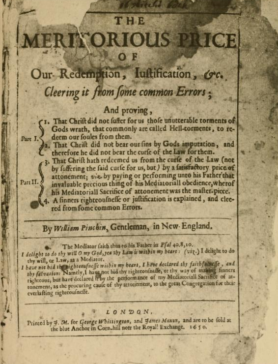 The cover page of William Pynchon's banned book, The Meritorious Price of Our Redemption, the first banned book in the New World. His controversial views at the time were condensed into the paragraph below the book's title, as follows: The Meritorious Price of Redemption, Justification, &c., Clearing from Some common Errors; And proving: 1. That Christ did not suffer for us those unutterable torments of God’s wrath, that commonly are called Hell-torments, to redeem our souls from them. 2. That Christ did not bear our sins by Gods imputation, and therefore he did not bear the curse of the Law for them. 3. That Christ hath redeemed us from the curse of Law (not by suffering the said curse for us, but) by a satisfactory price of atonement; viz. by paying or performing unto his Father that invaluable precious thing of his Mediatorial obedience, whereof his Mediatorial Sacrifice of atonement was the master-piece. 4. A sinners righteousness or justification is explained, and cleared from some common errors.